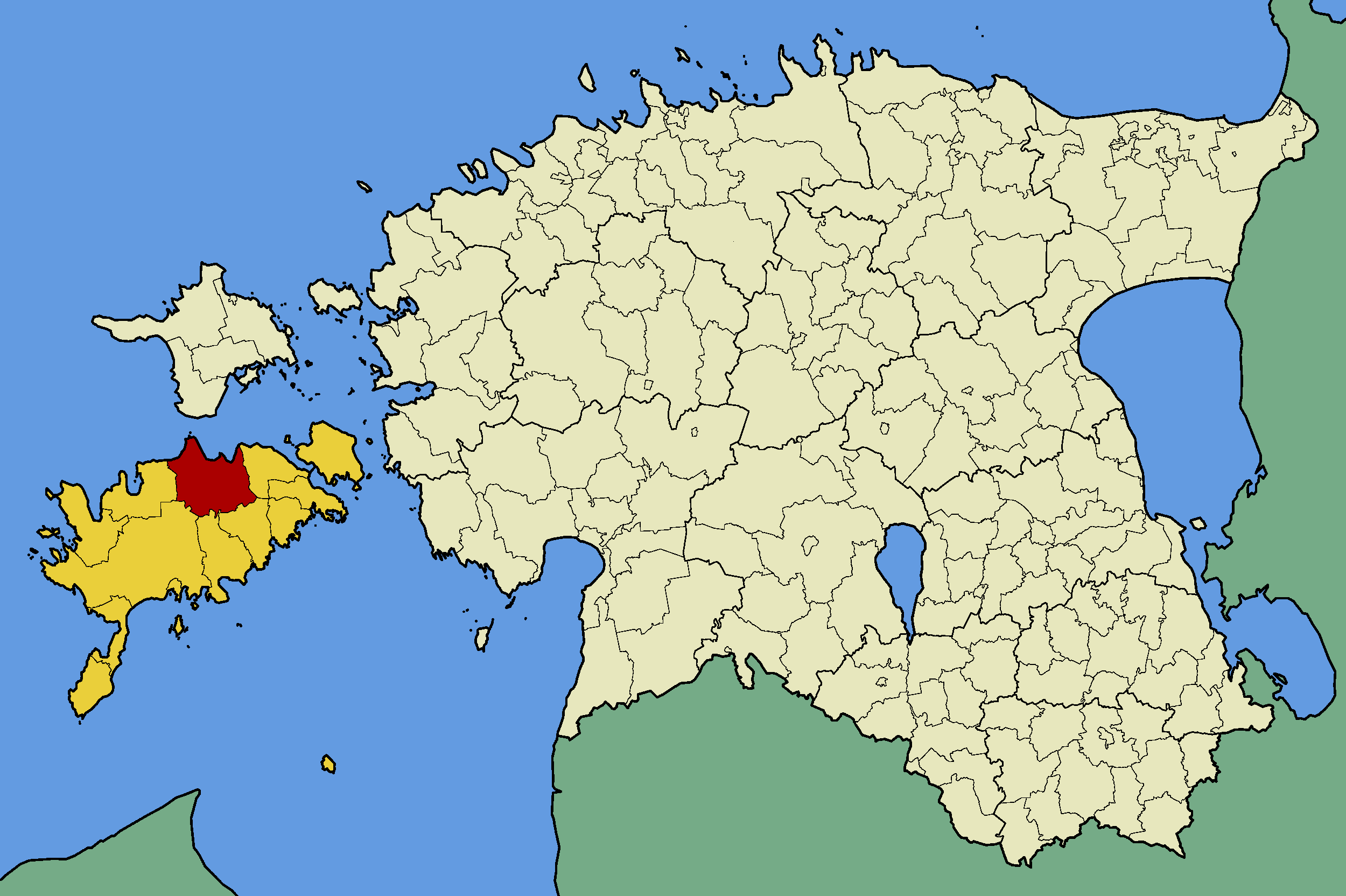 Map of Estonia with borders of municipalities (parishes). Saare county and Leisi municipality emphasized.